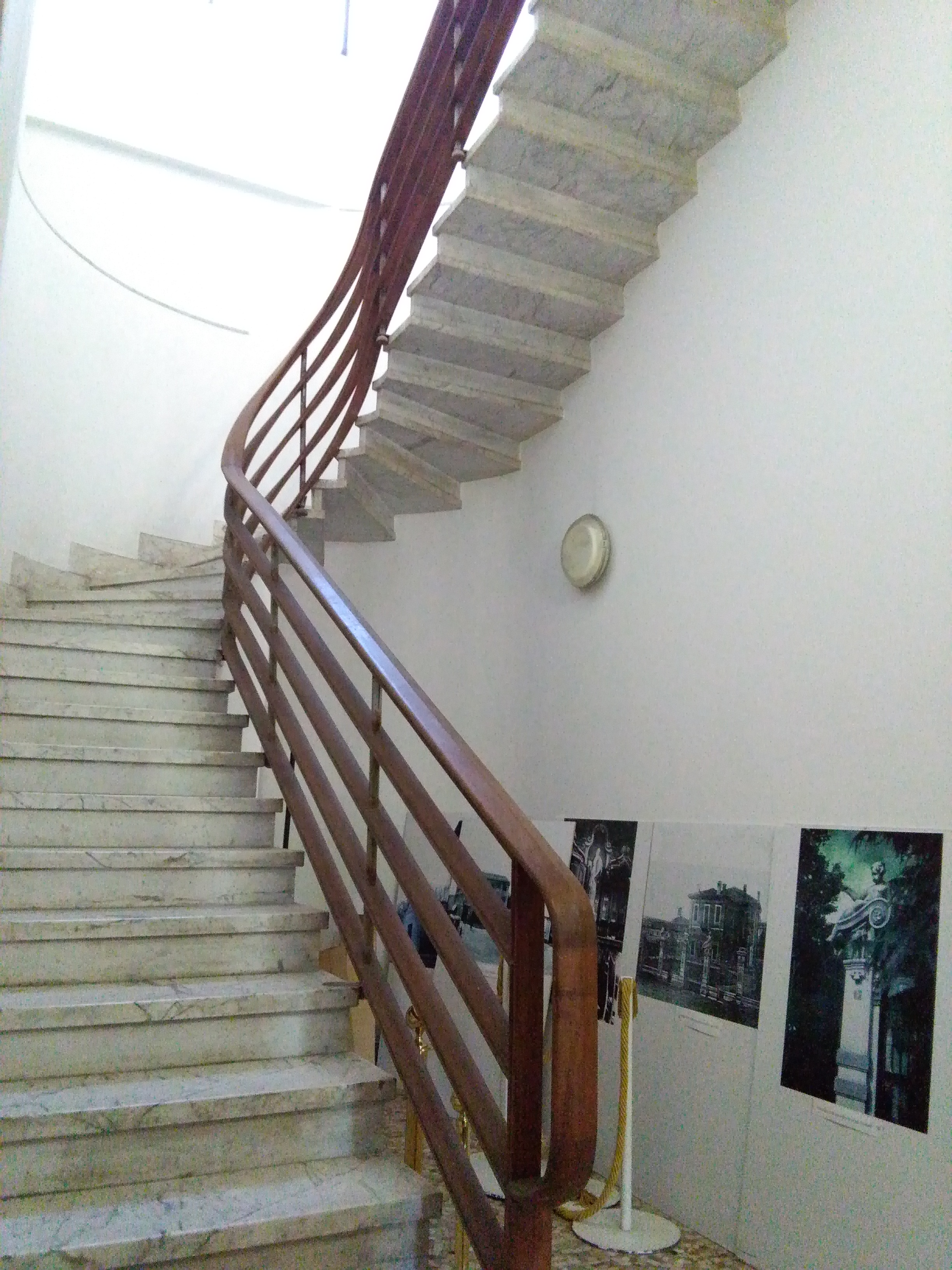 stairs